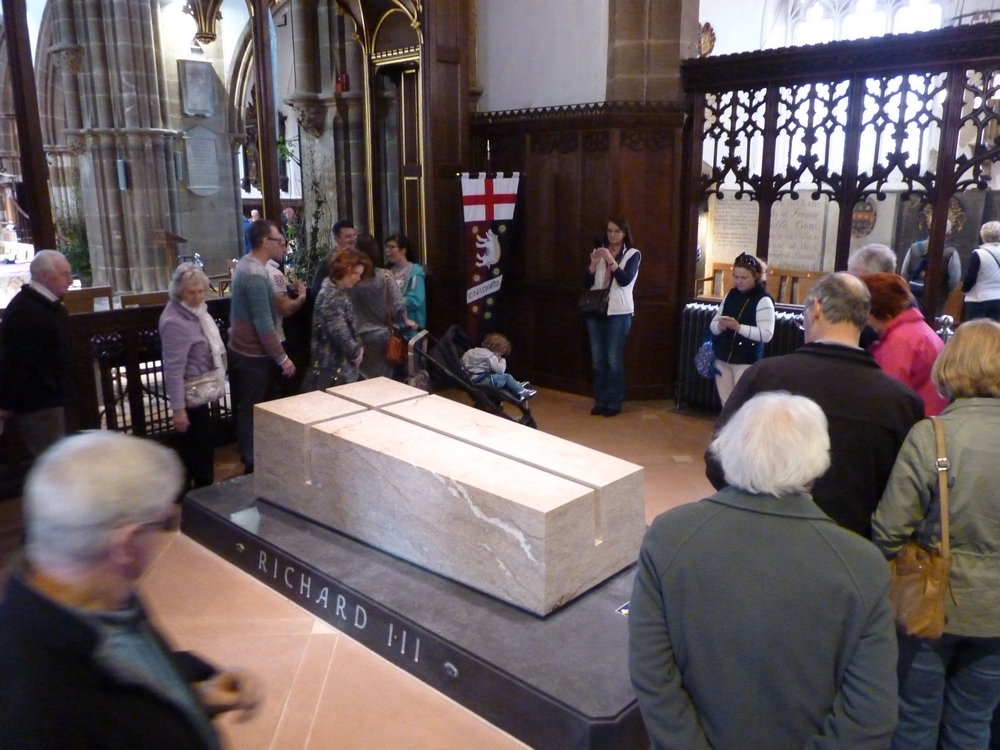 Swaledale Fossil limestone tomb-slab installed at the re-interment of Richard III on 26th March 2015 in the East end of Leicester Cathedral. The stone tapers both in height and width towards the east, so that it evokes the idea of facing east in anticipation of the resurrection.